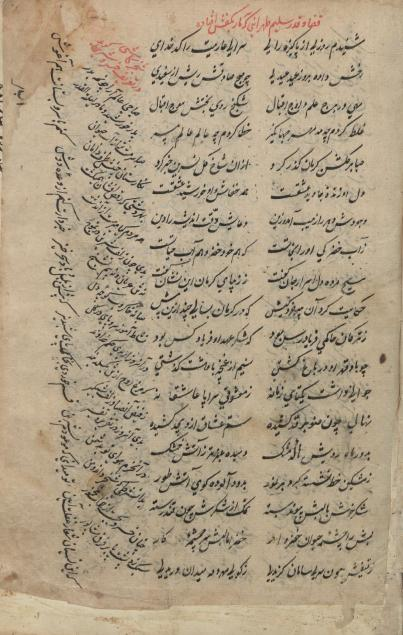 Handwriting Mathnawi of Predestination (al-qada' wa'l-qadar) by Muhammad Quli Salim Tehrani more in Persian